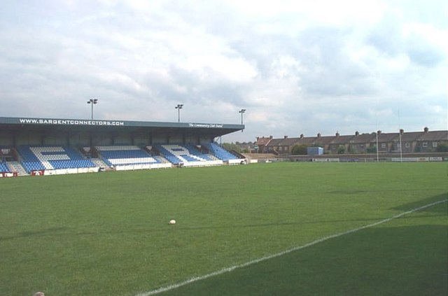 Featherstone Rovers Rugby Ground, Featherstone. This is the view of the pitch from the part of the ground reserved for disabled spectators.